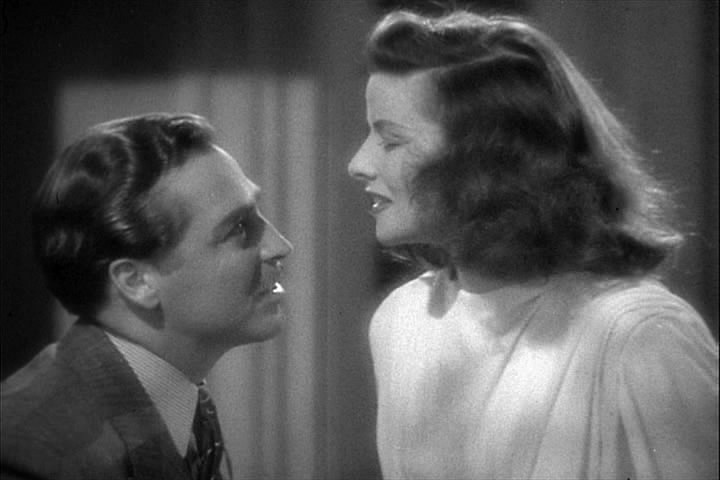 Philadelphia Story